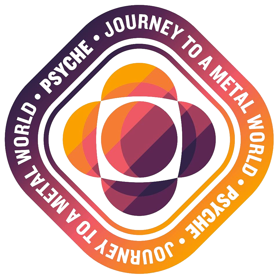 Official mission insignia of the Psyche mission by the Arizona State University, the 14th mission in NASA's Discovery program.